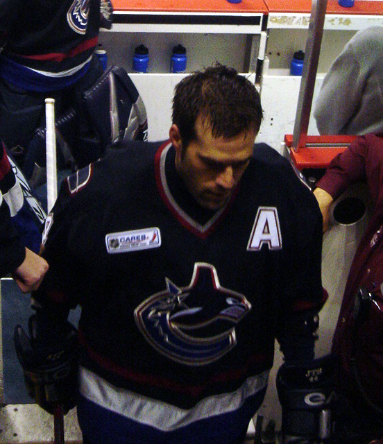 Former Vancouver Canucks forward Todd Bertuzzi